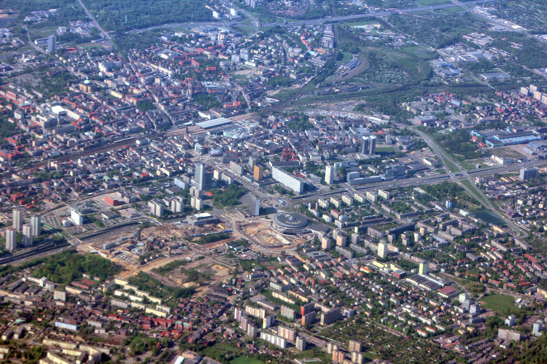 Katowice, Poland.